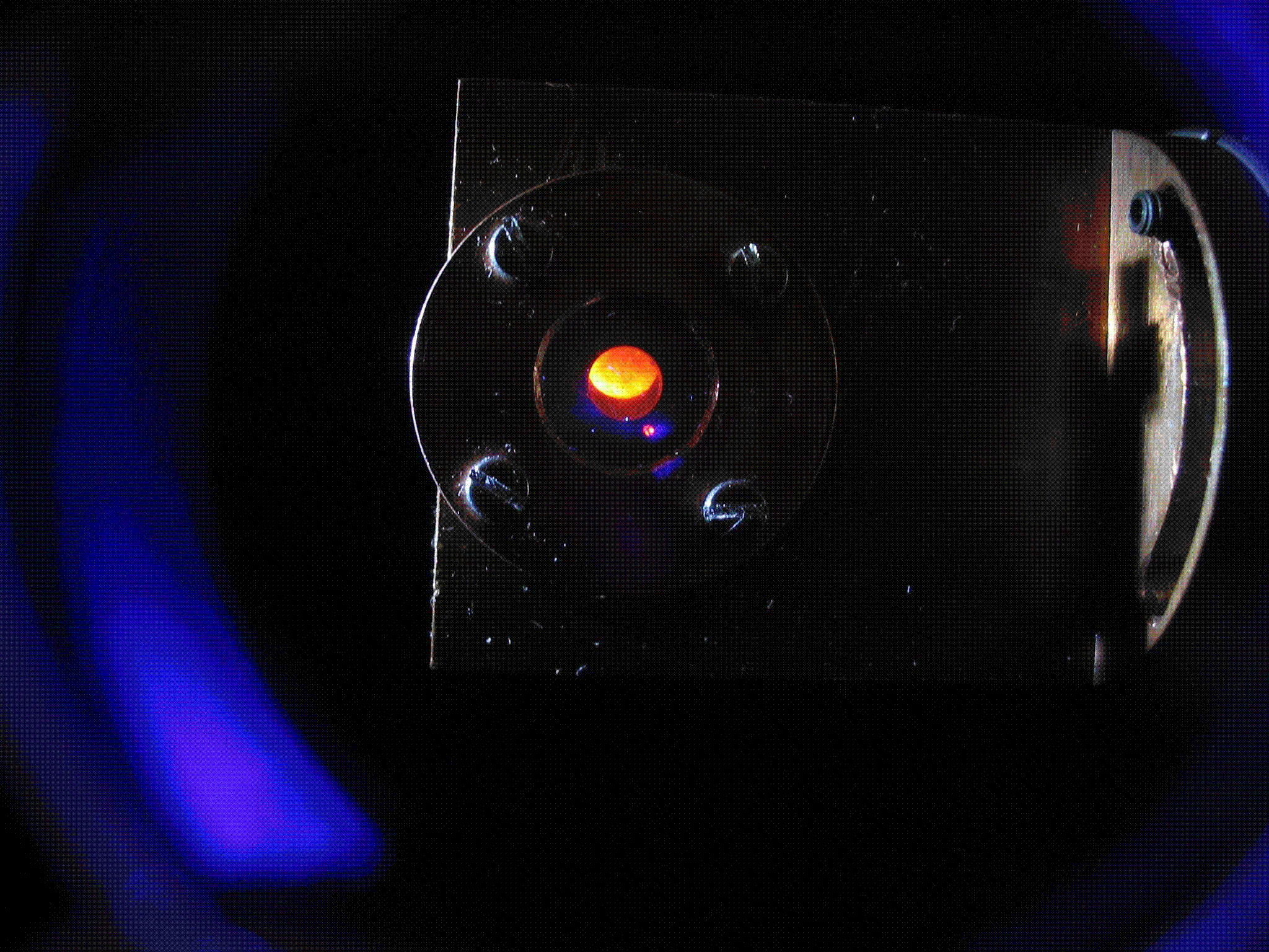 laser-induced Cm(III) fluoresence in solution